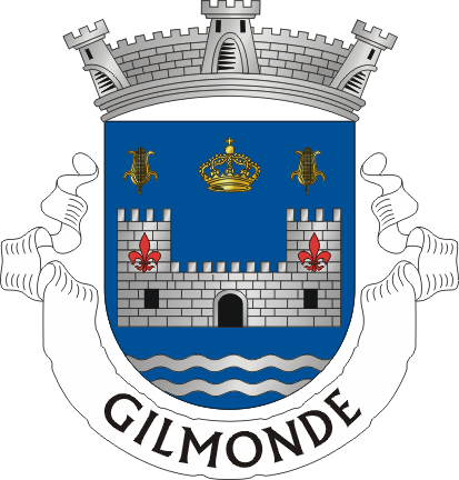 Crest of Gilmonde, a parish in the municipality of Barcelos (Portugal)